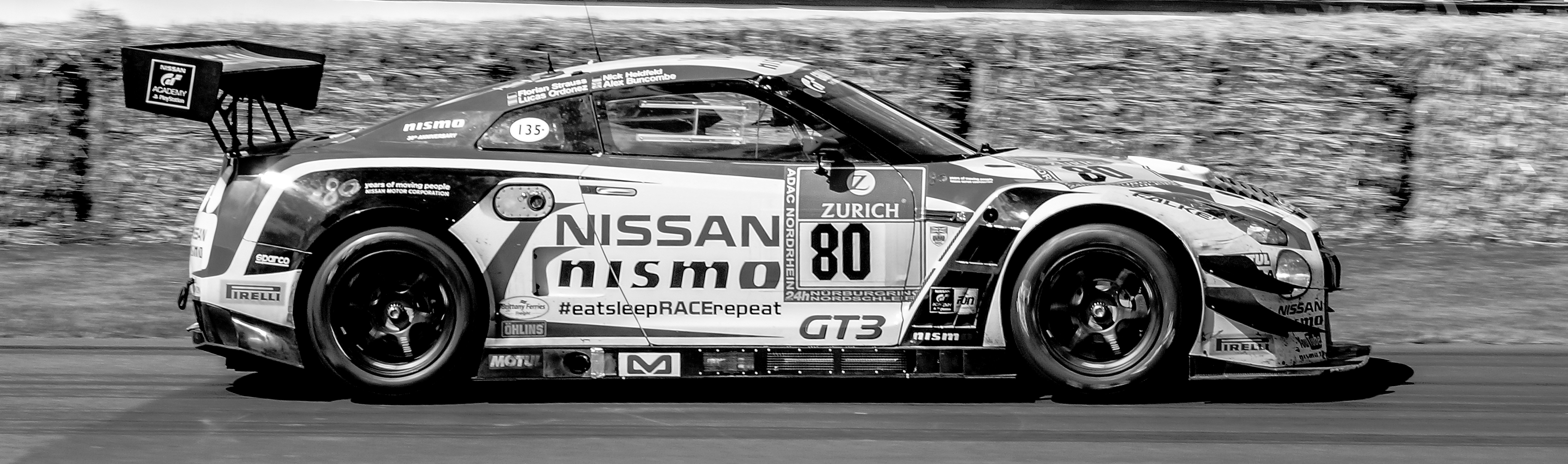 The Nissan GT-R Nismo GT3, which raced at the 2014 Nürburgring 24 Hours, at the 2014 Goodwood Festival of Speed.